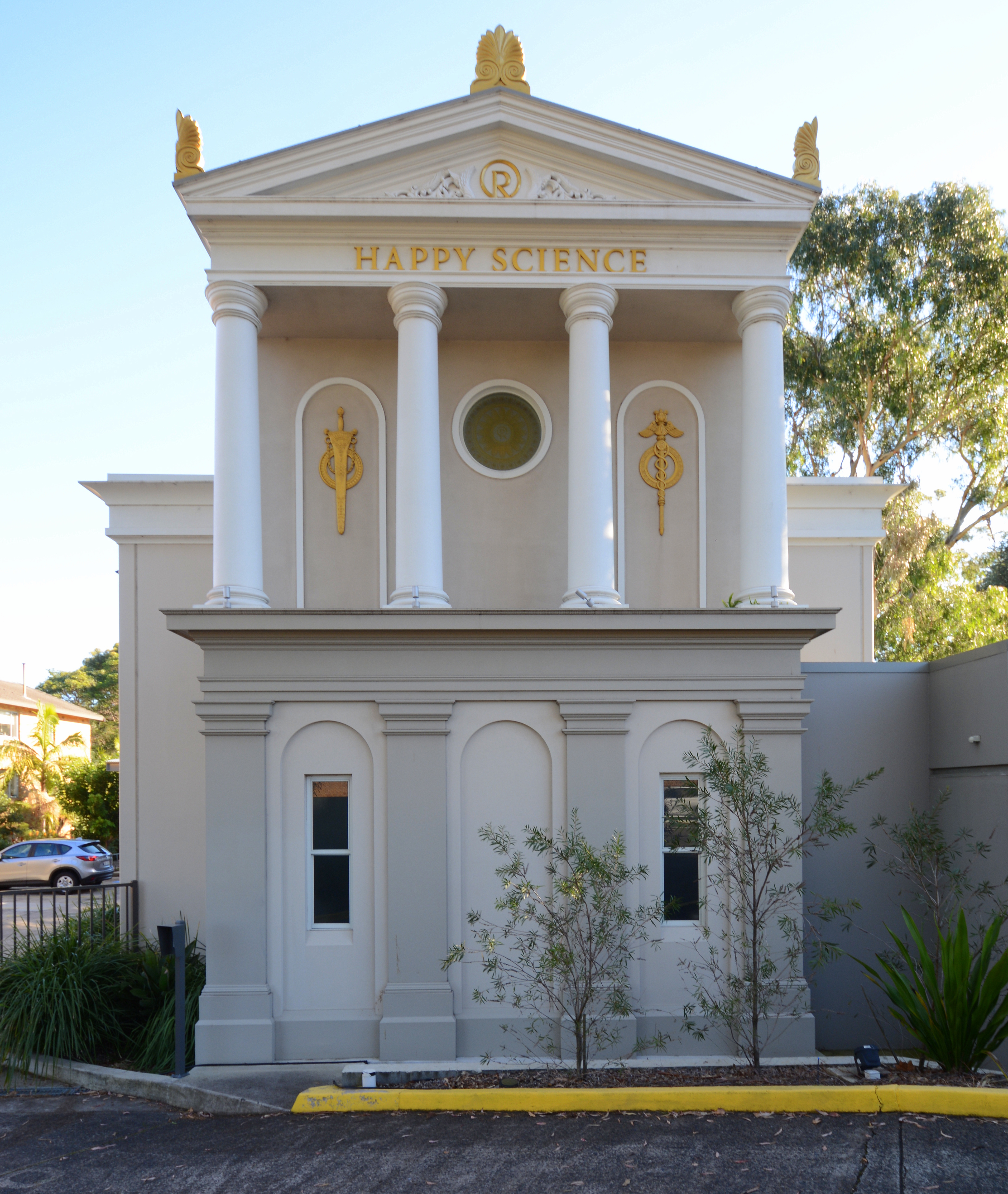 Happy Science, Pacific Highway, North Lane Cove, Sydney